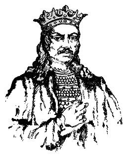 Boleslaw-Yuri II of Galicia